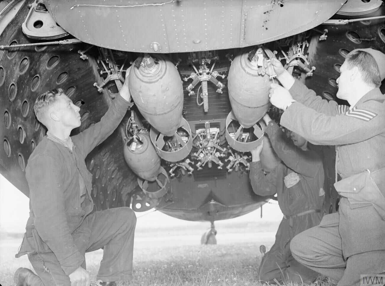 Armourers secure 250-lb GP bombs in the bomb-bay of a Lockheed Hudson of No. 224 Squadron RAF at RAF Leuchars, Fife, Scotland.